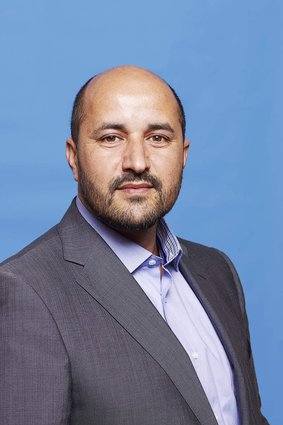 Ahmed Marcouch, Tweede Kamerlid. Foto: Lex Draijer.